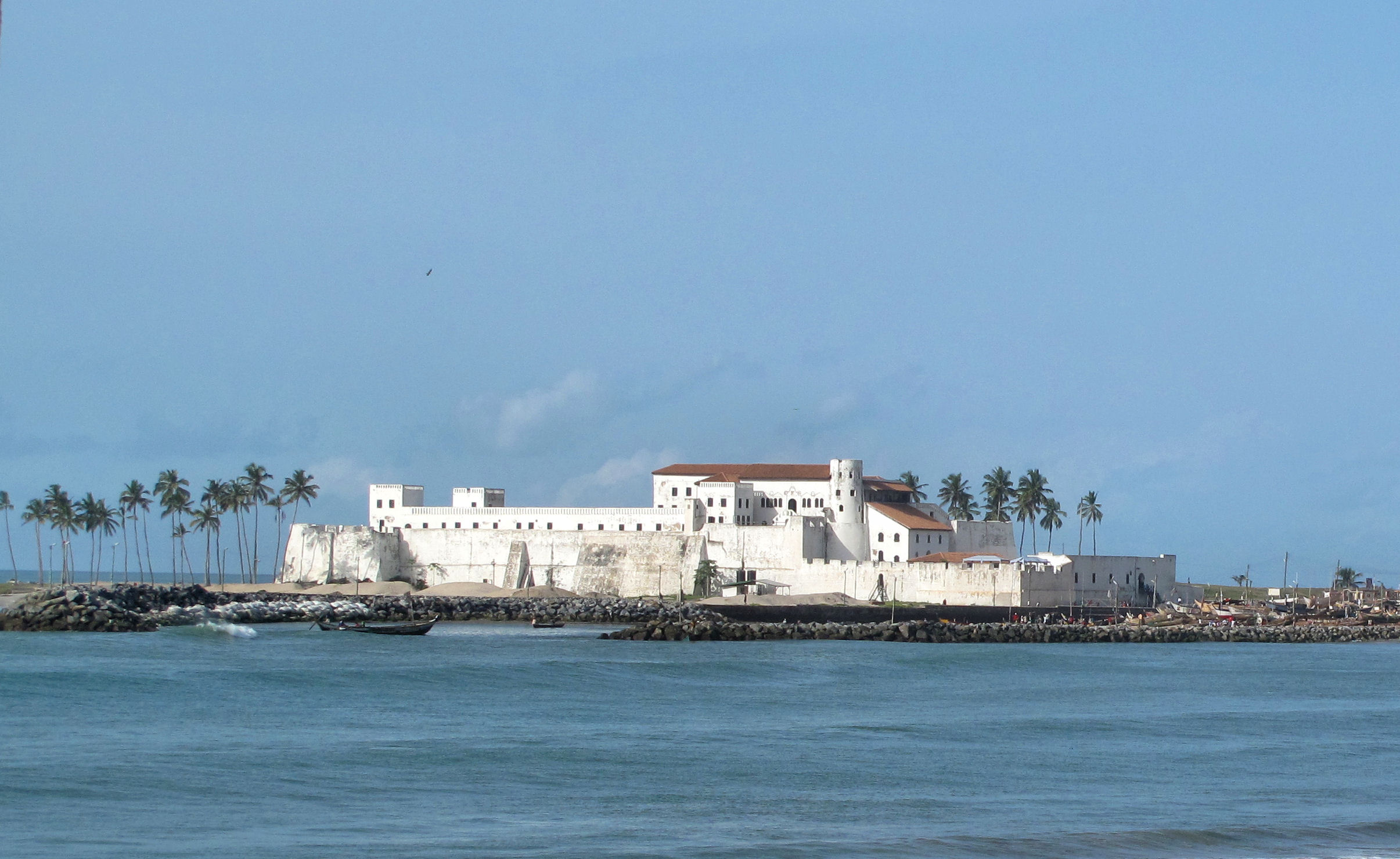 Elmina: view of the Fort São Jorge da Mina. Before the Fort the Benya River issues into the Gulf of Guinea.